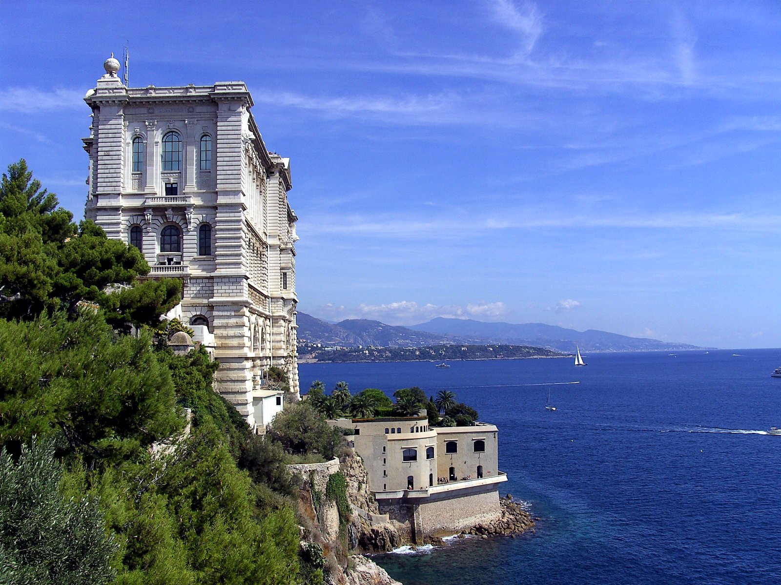 Oceanographic Museum Monaco